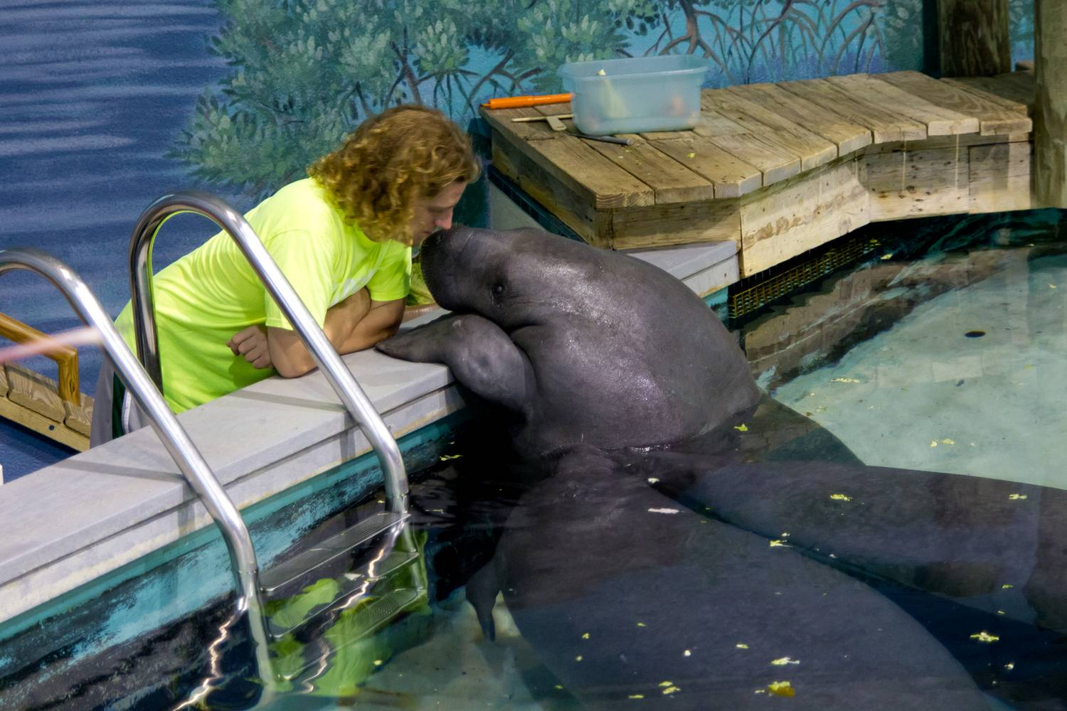 Snooty the worlds oldest Manatee on his 63rd birthday at South Florida Museum